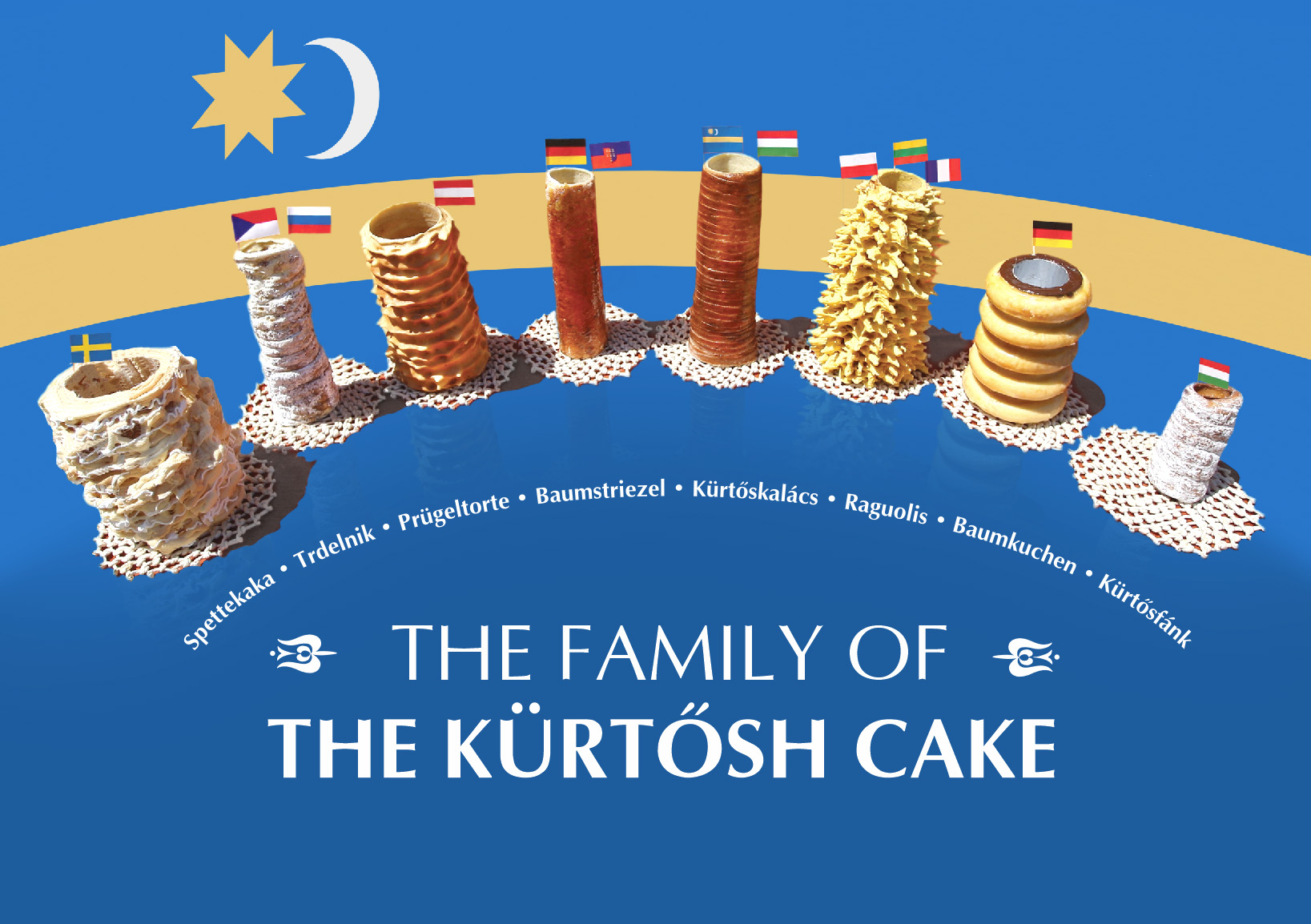 Kürtősh Kalách family-Spettekaka Trdelník Prügelkrapfen Baumstriezel Kürtőskalács Raguolis Baumkuchen Kürtősfánk